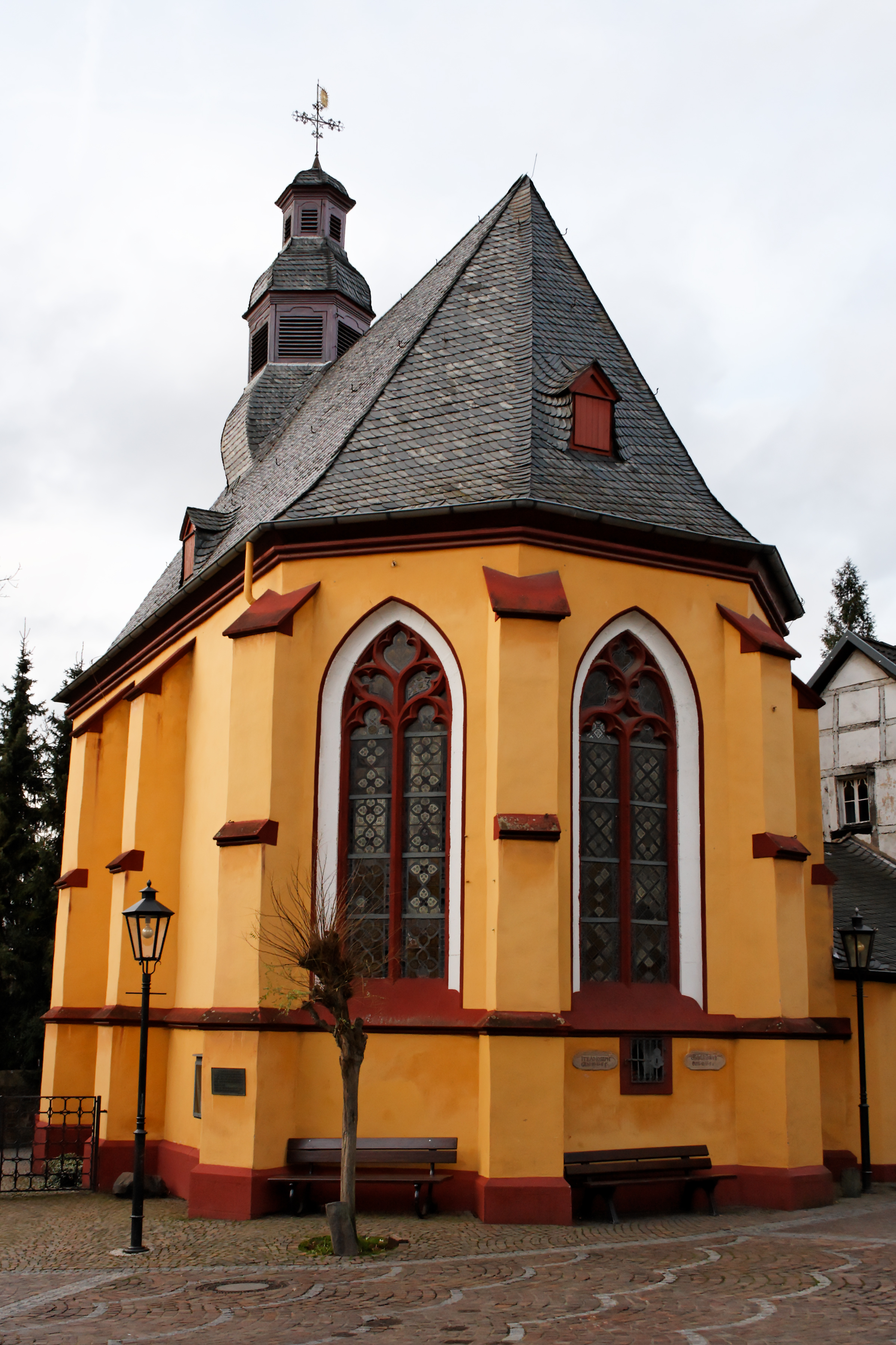 This image shows the chapel in Unkel-Scheuren.